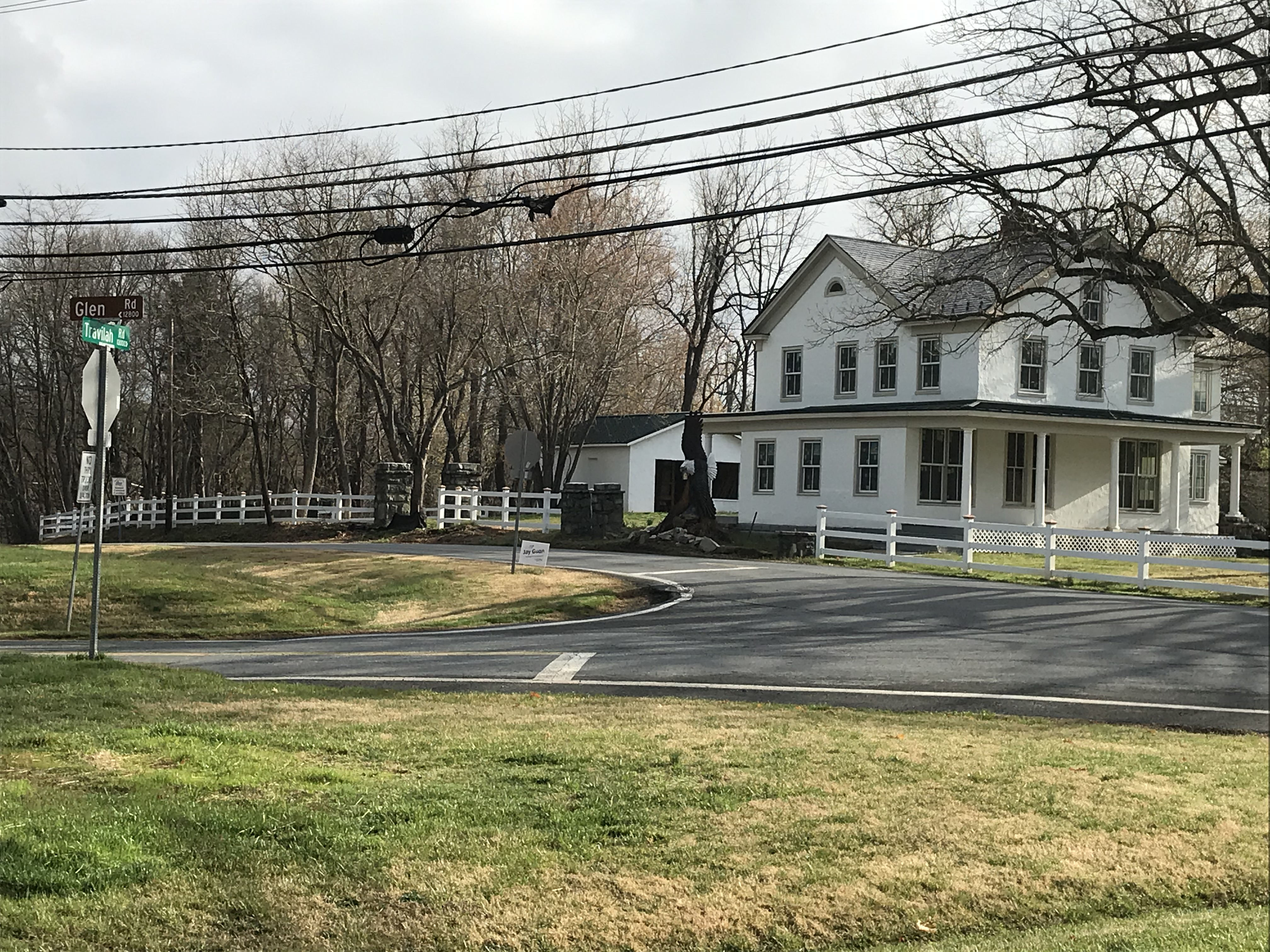 This 150-year-old house still remains at the old crossroads community of Travilah in the Travilah CDP in Maryland.